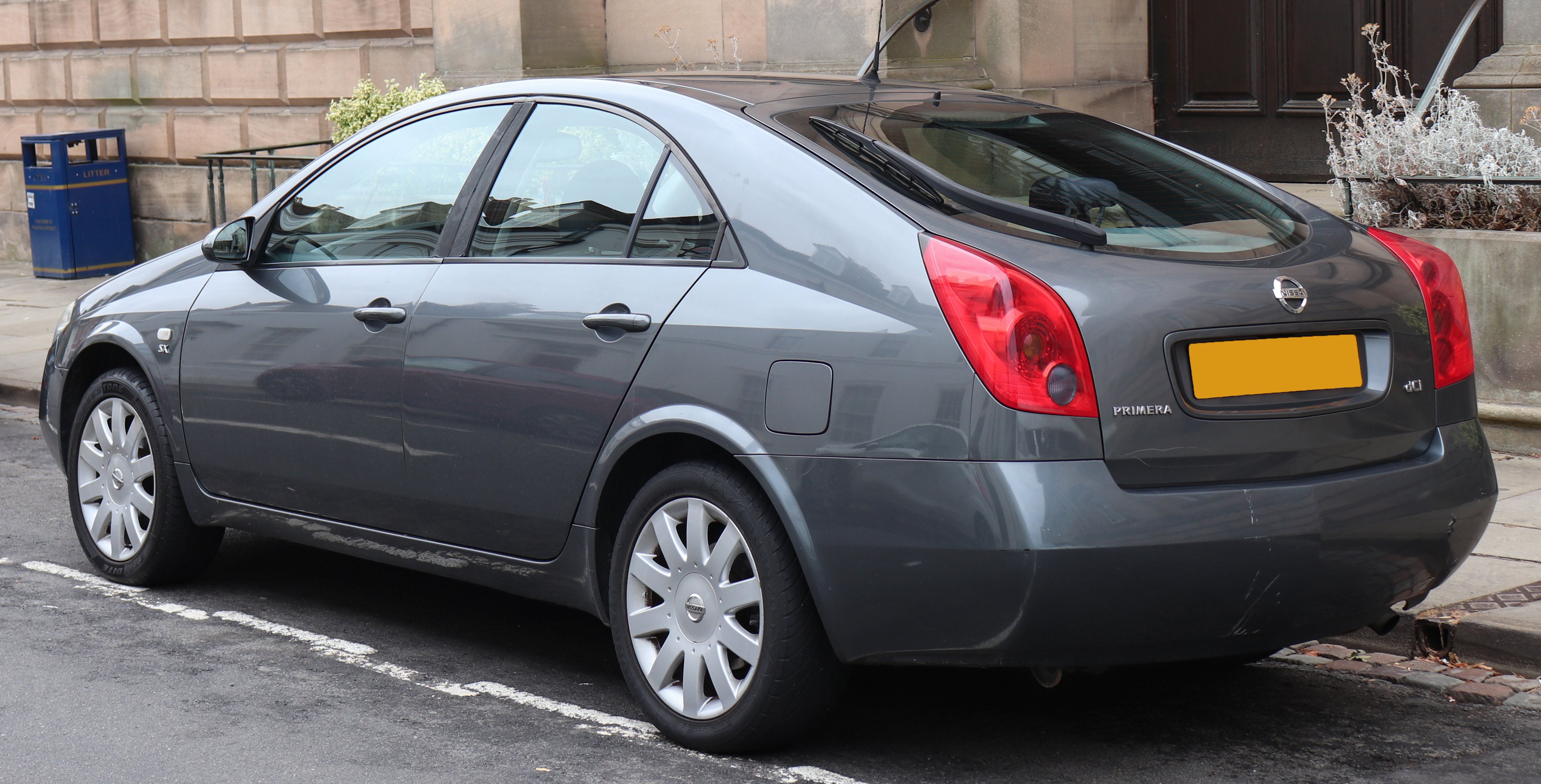 2005 Nissan Primera SX DCi 2.2 Rear Taken in Warwick